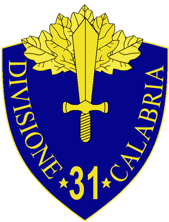 31a Divisione Fanteria Calabria insignia, Regio Esercito, Italy, WWII